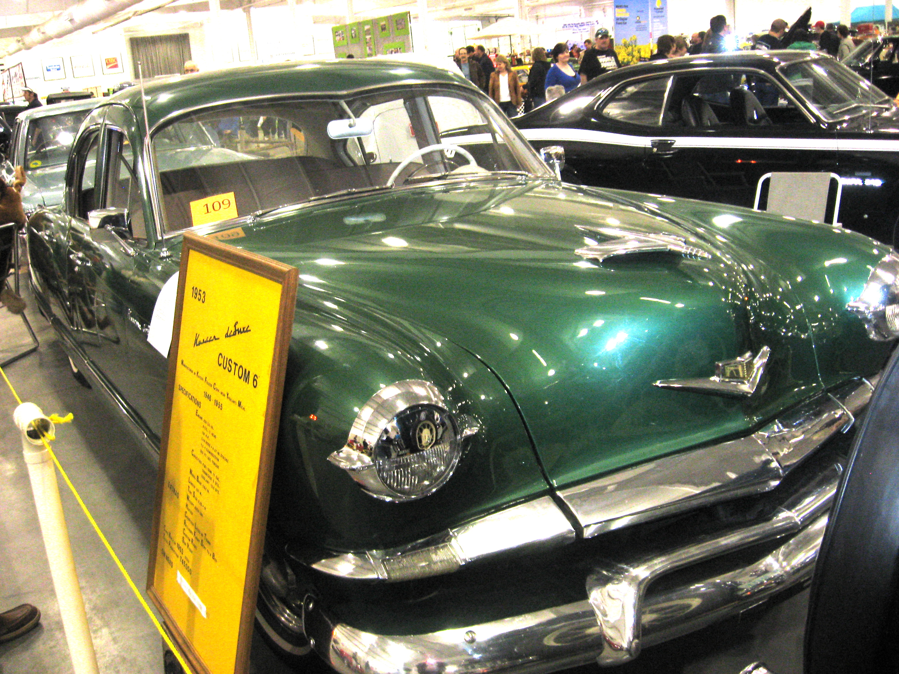 '53 Kaiser Custom 6, shot at 50h Anniversary Draggins car show, Praireland Exhibition, Saskatoon, 3 April 2010